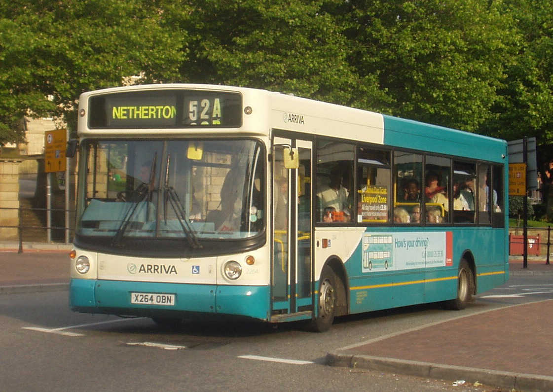 Arriva North West and Wales Dennis Dart SLF with Alexander ALX200 bodywork in Liverpool, England.